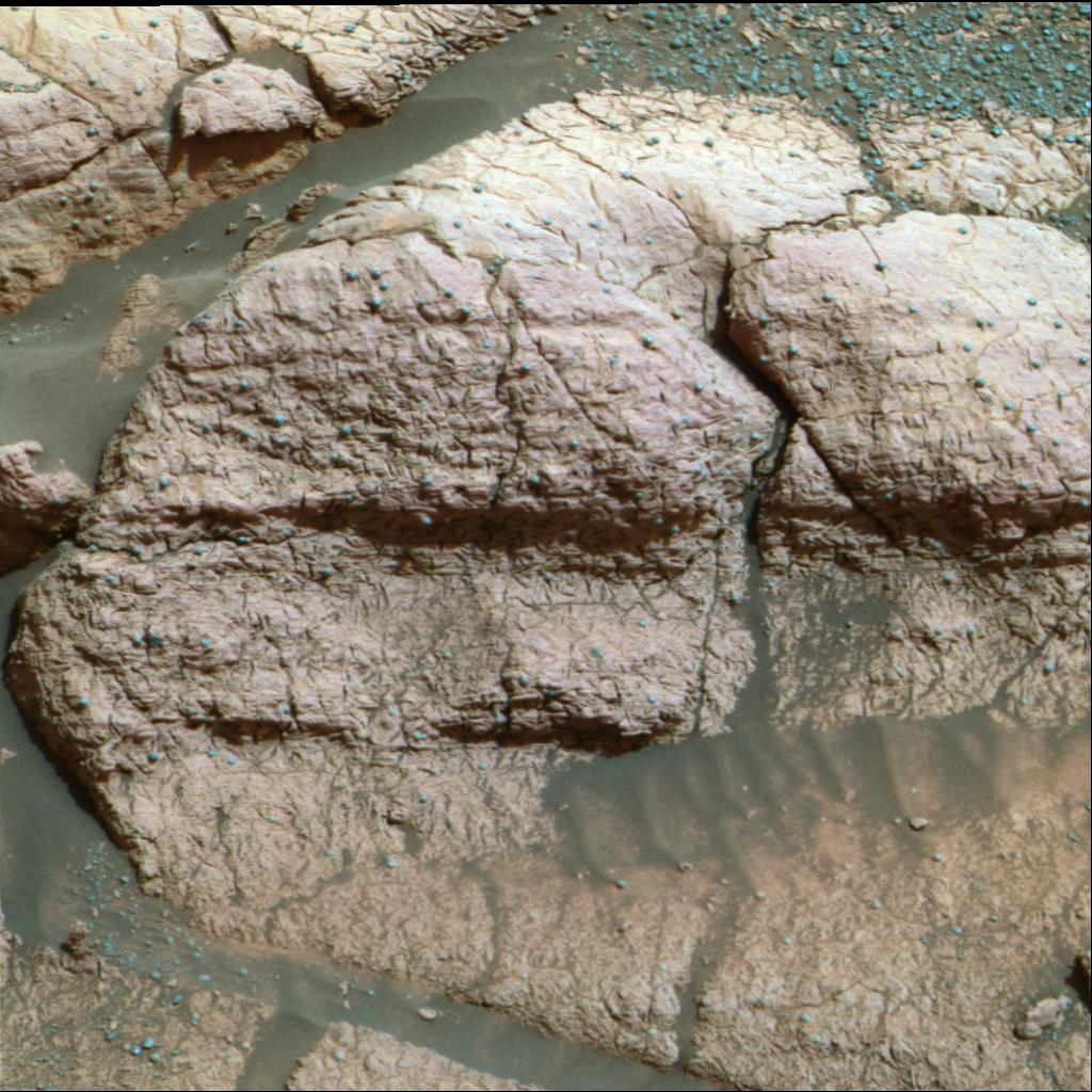 This image, taken by the panoramic camera on the Mars Exploration Rover Opportunity, shows a close up of the rock dubbed "El Capitan," located in the rock outcrop at Meridiani Planum, Mars. This image shows fine, parallel lamination in the upper area of the rock, which also contains scattered sphere-shaped objects ranging from 1 to 2 millimeters (.04 to .08 inches) in size. There are also more abundant, scattered vugs, or small cavities, that are shaped like discs. These are about 1 centimeter (0.4 inches) long.